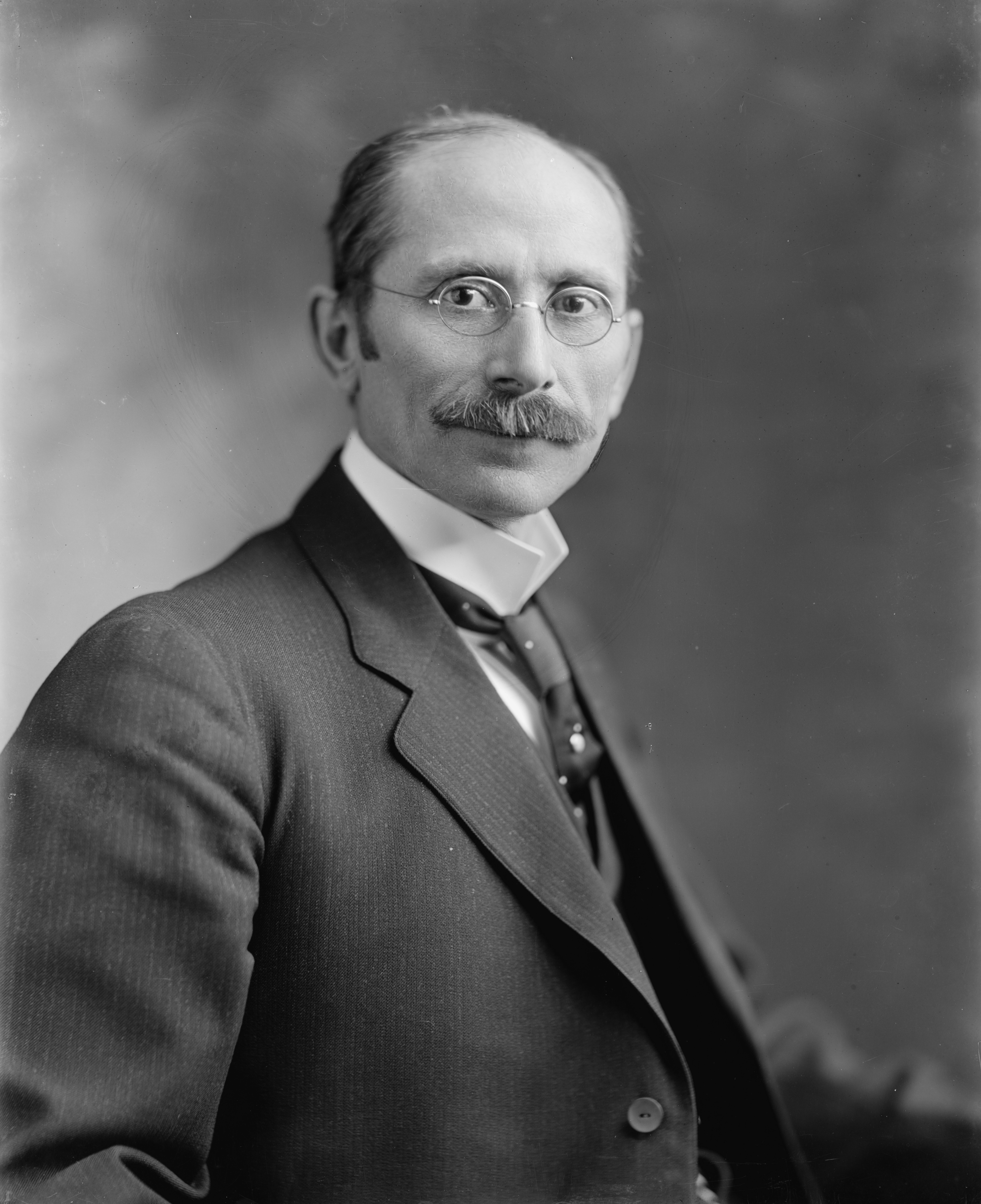 Title: BRISTOW, J.L. SENATOR Abstract/medium: 1 negative : glass ; 8 x 10 in. or smaller